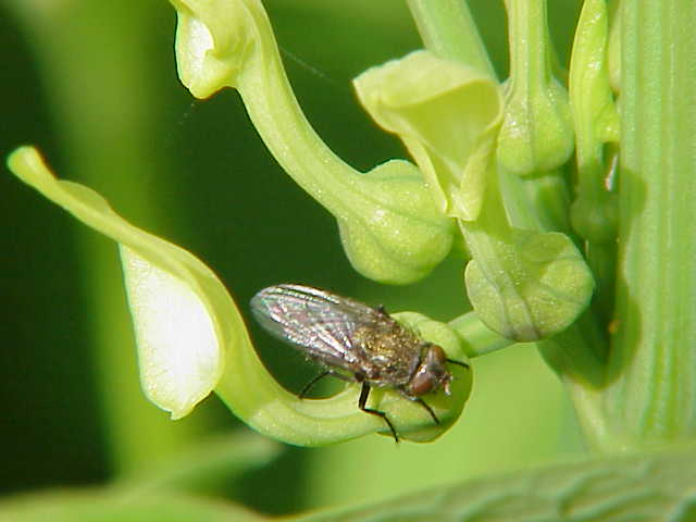 Species: Aristolochia clematitis Family: Aristolochiaceae Image No. 4